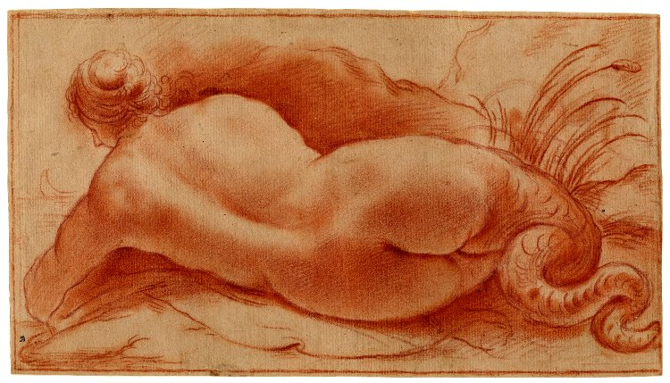 A mermaid or a siren, seen from behind, lying on a rock by the sea with the prow of a ship on the horizon , drawn by Giovanni Battista Caccioli (1638-1675)